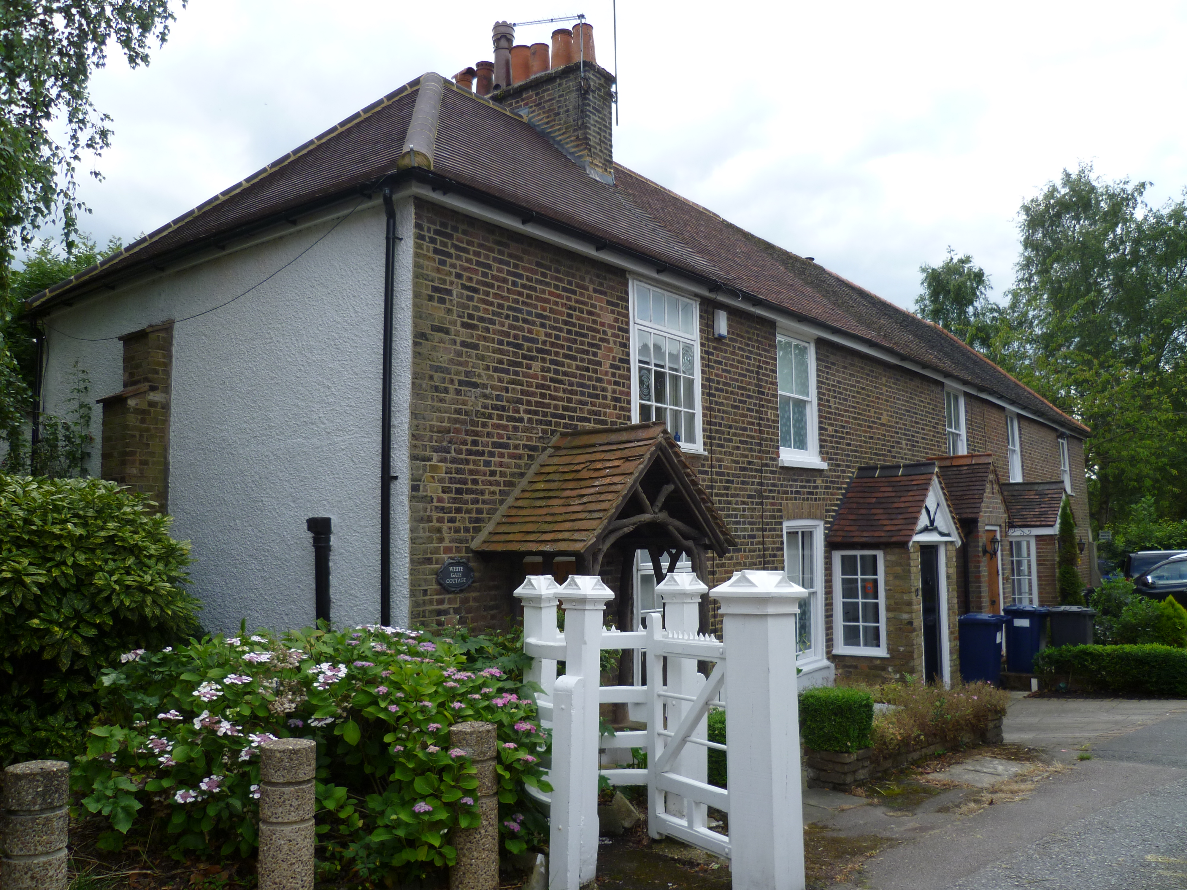 Games Road cottages, Cockfosters 25 July 2015